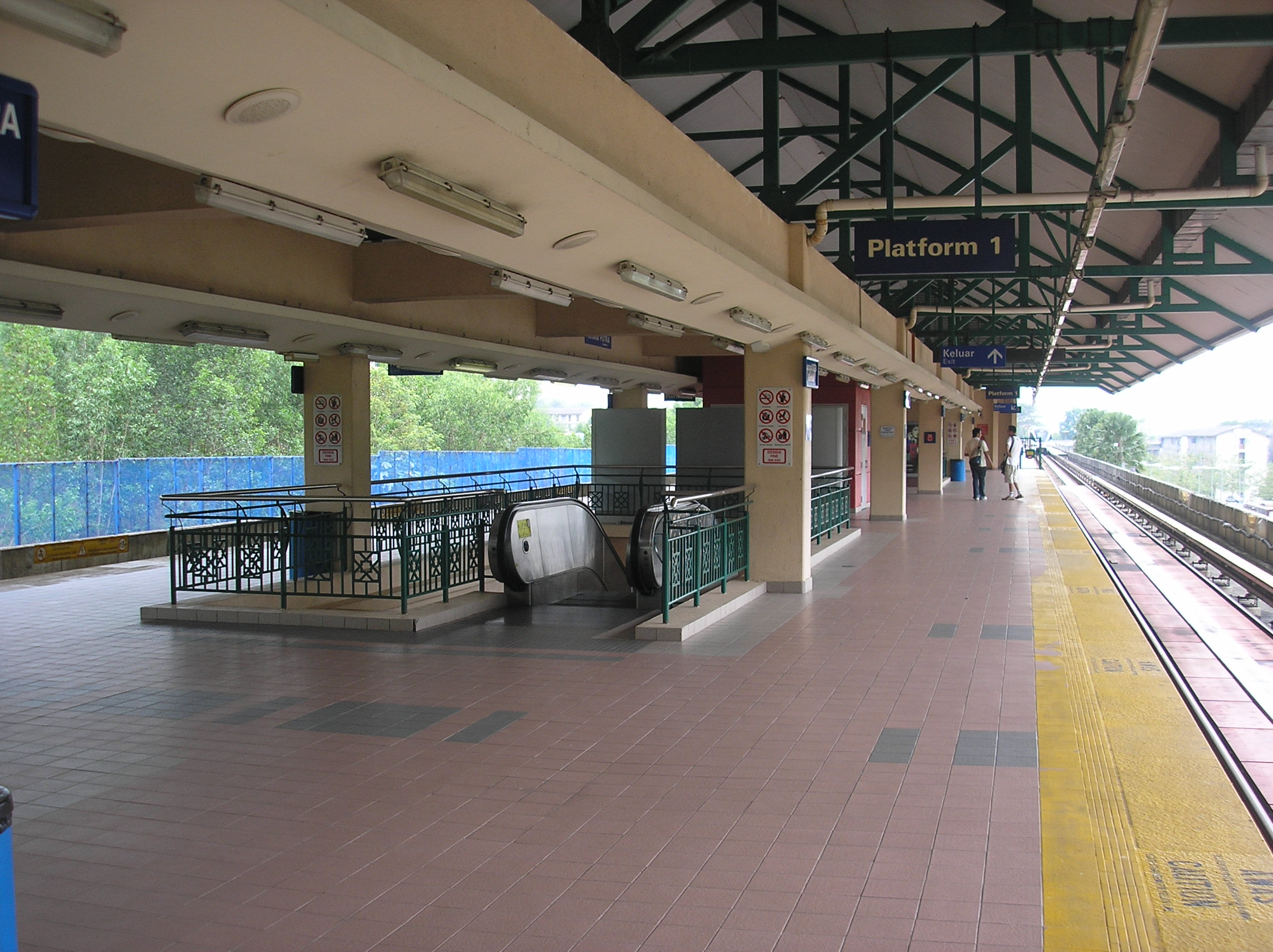 A platform view (towards the south) of the Terminal PUTRA station (Kelana Jaya Line), in Taman Melati, Kuala Lumpur, Malaysia.